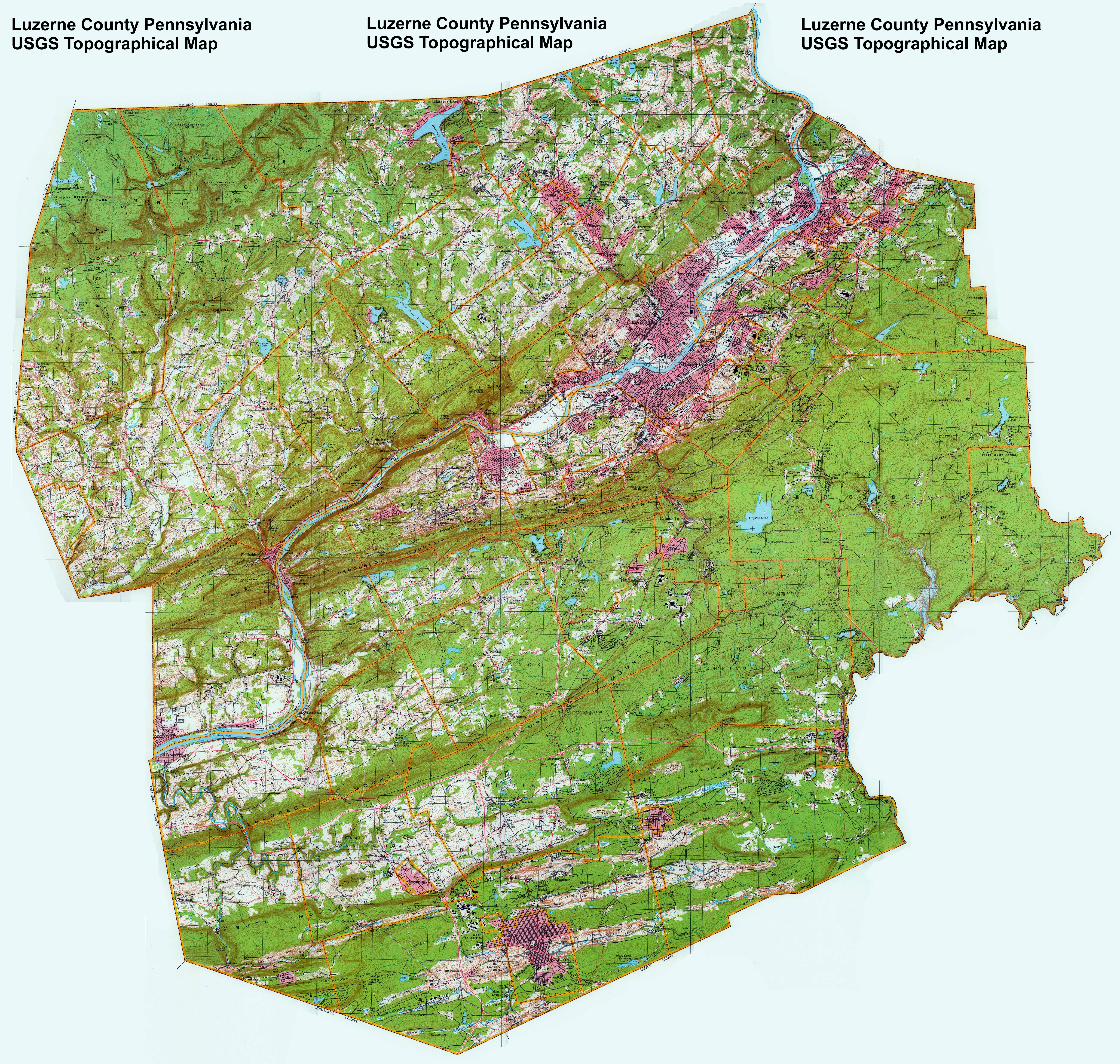 A topographical map depicting Luzerne County, Pennsylvania